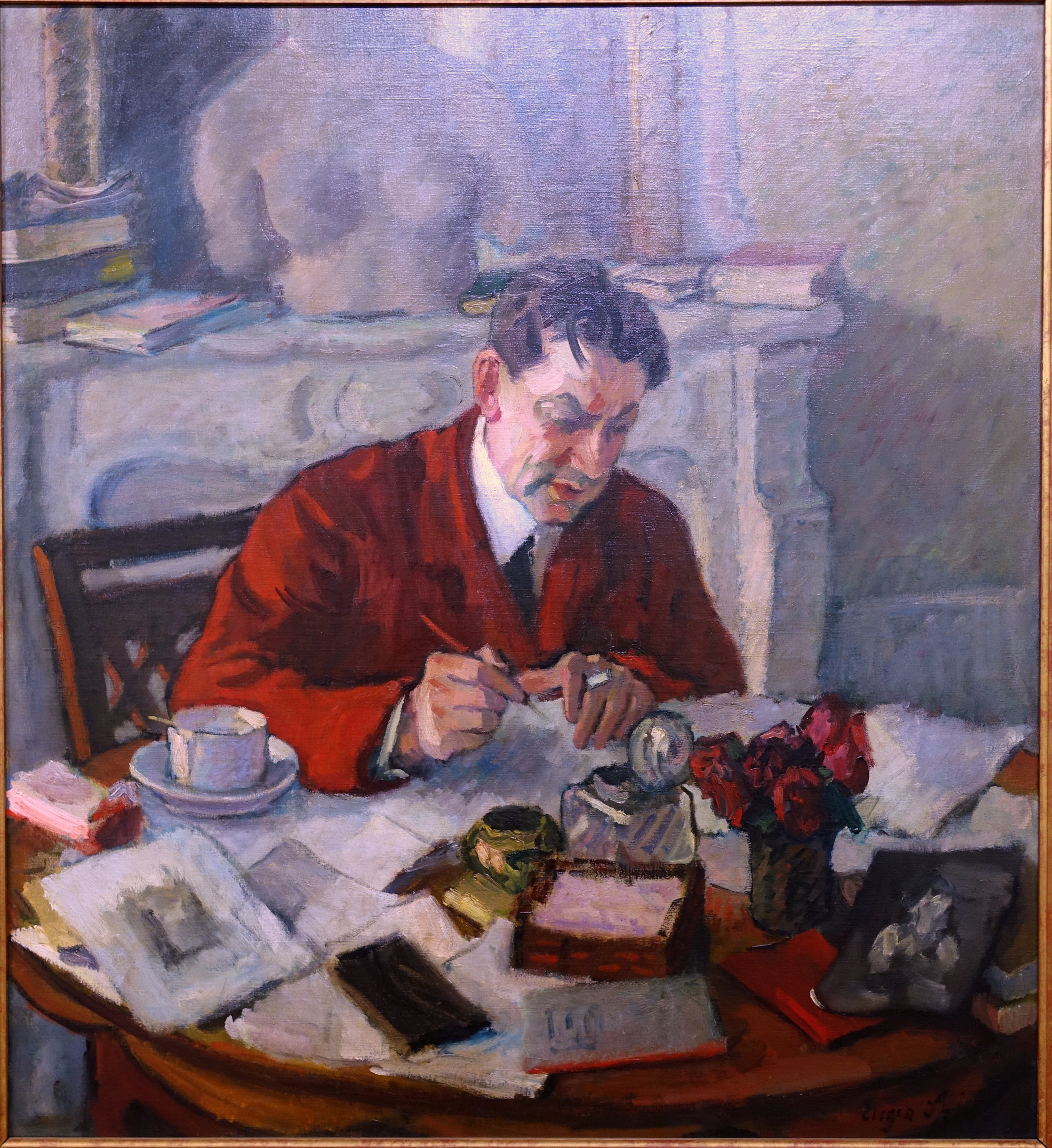 Exhibit in the Germanisches Nationalmuseum - Nuremberg, Germany.